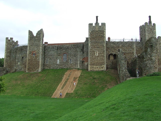 Framlingham Castle Framlingham Castle Framlingham Suffolk.